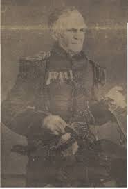 en su uniforme de Gala 1 año antes de su muerte